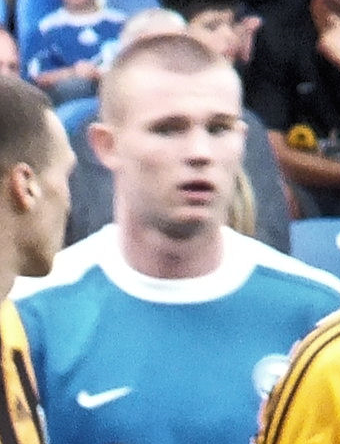 Ryan Tunnicliffe. Image cropped from original at flickr.